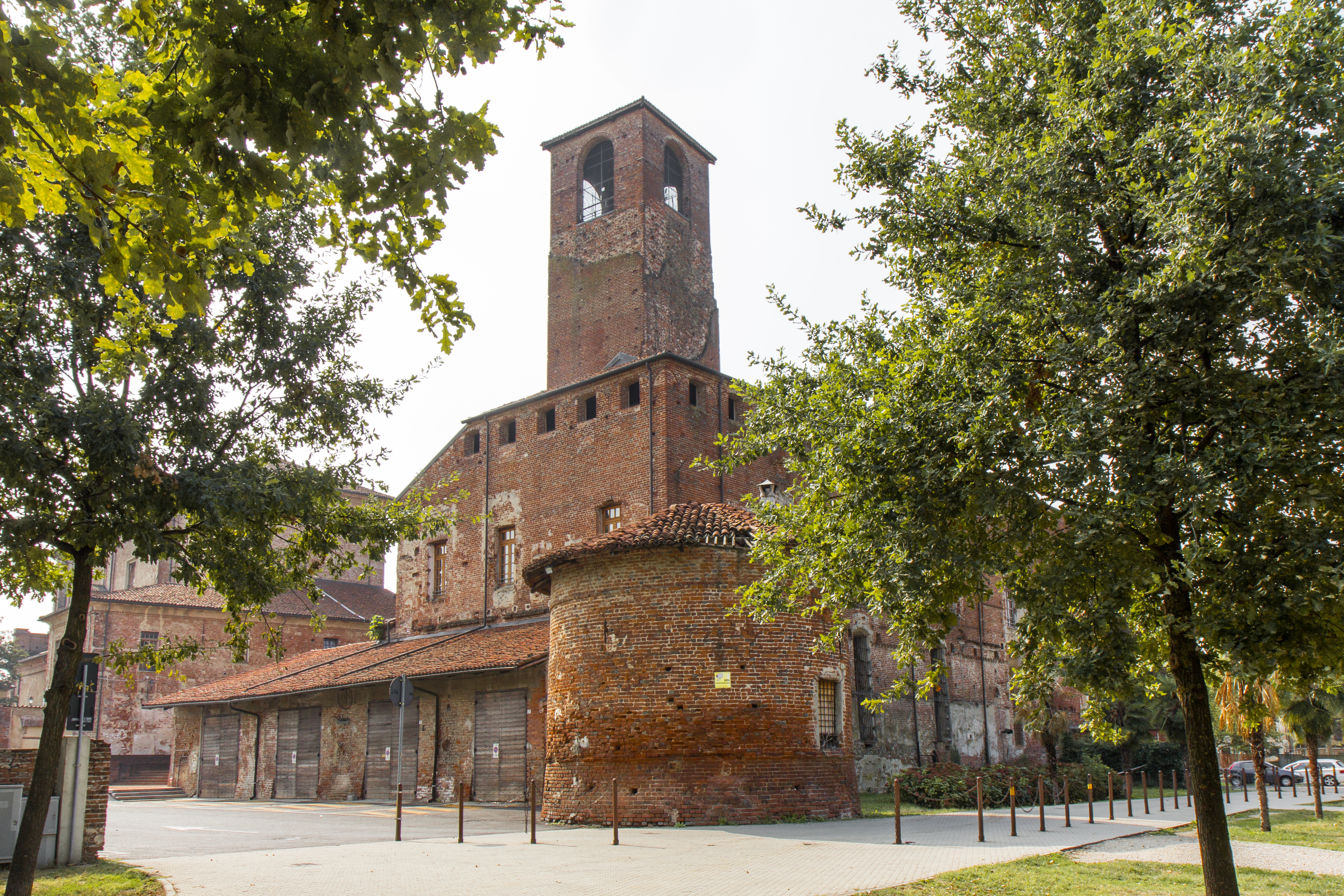 Carmagnola Castle town hall park public garden This is a photo of a monument which is part of cultural heritage of Italy.